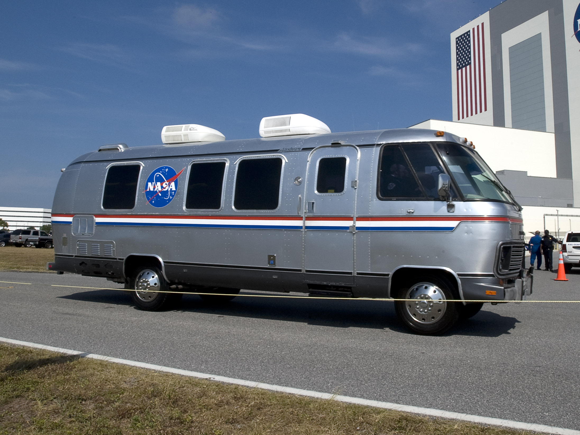 The NASA astrovan drives to launch pad 39A with the crew of STS-125 after dropping off NASA management outside the Launch Control Center (LCC) and Vehicle Assembly Building (VAB), Monday, May 11, 2009, at Cape Canaveral, Fla. Space shuttle Atlantis' 11-day mission is the final shuttle flight to NASA's Hubble Space Telescope. The seven-member crew will enhance the observatory to ensure cutting-edge science.